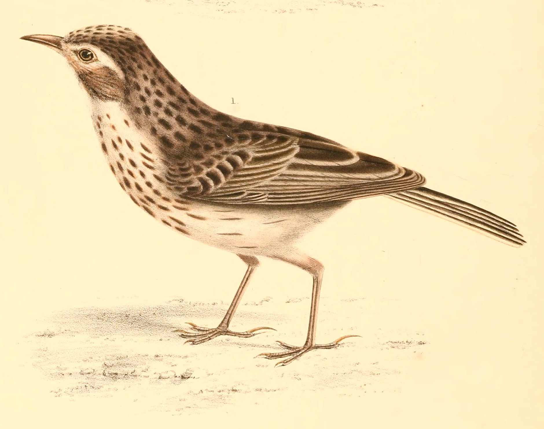 « Alauda codea » = Calendulauda albescens codea (subspecies of Karoo Lark) - female